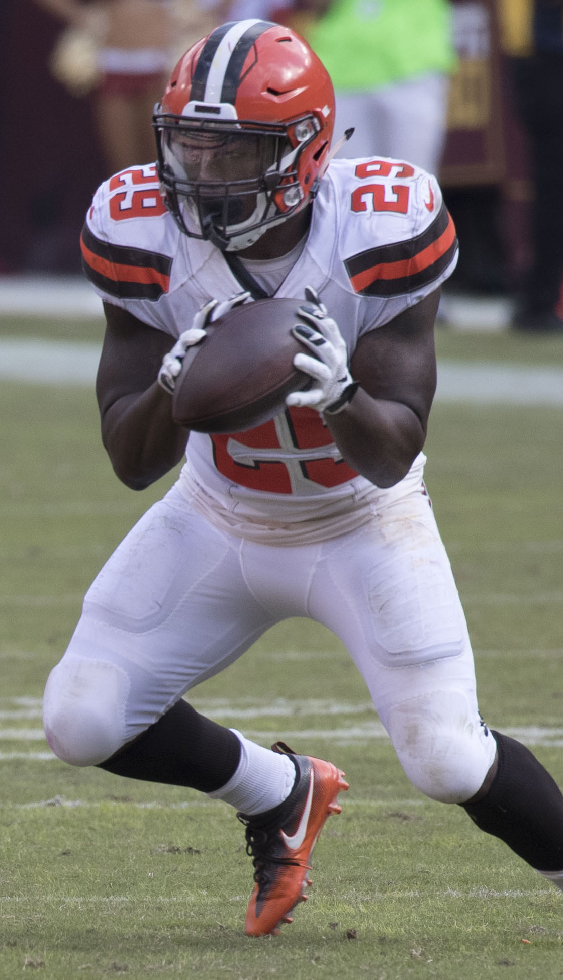 Photo of Cleveland Browns running back Duke Johnson